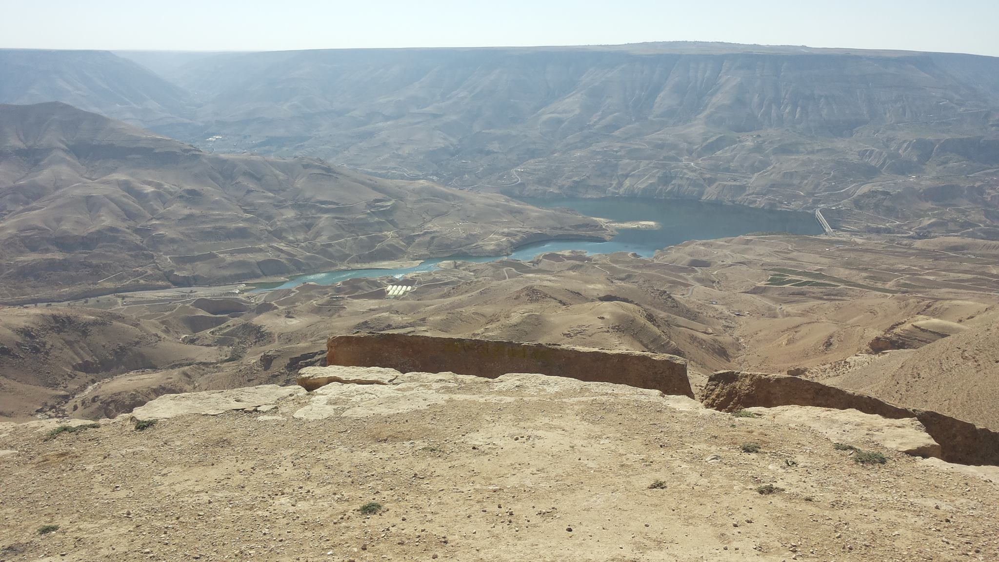 Wadi Mujib, Jordan